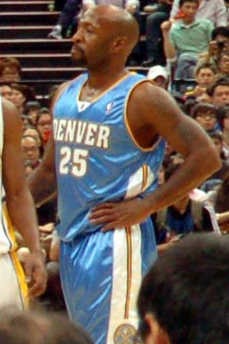 Anthony Carter of the Denver Nuggets This file has been extracted from another file: Balkman ready to shoot a free throw.jpg